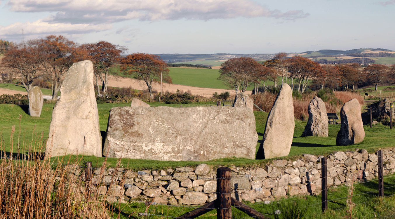 Easter Aquhorthies stone circle (cropped view)